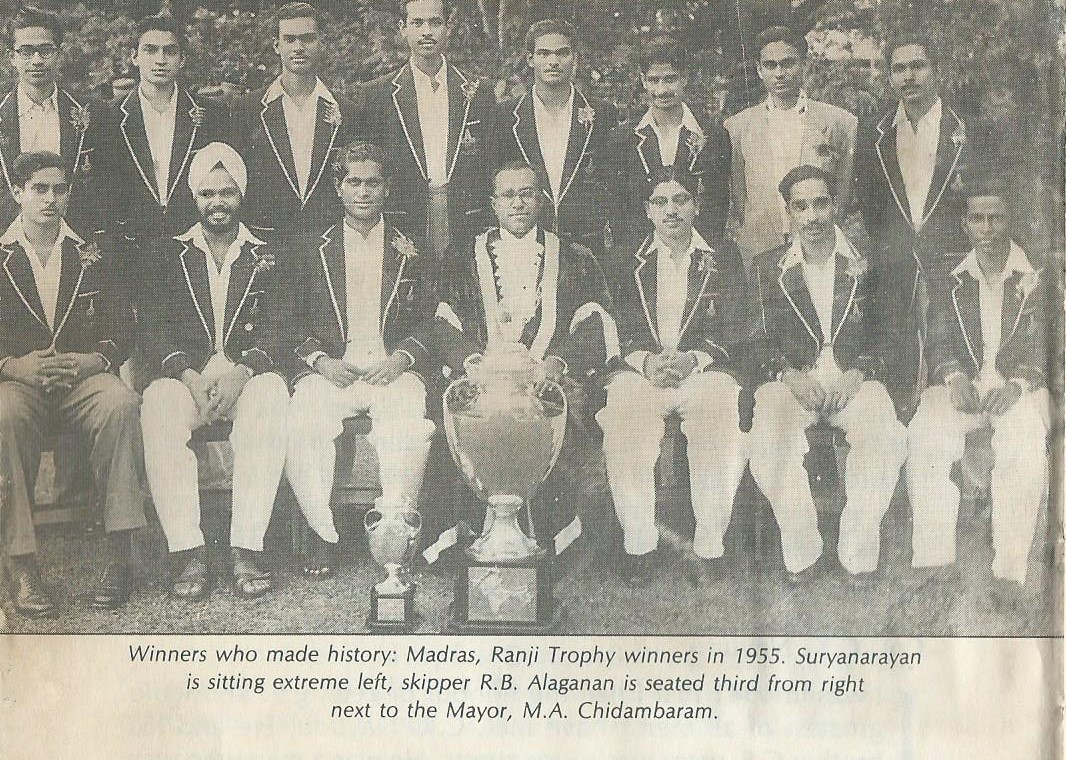 the First Ranji Trophy Triumph Team of Tamilnadu in 1954-1955